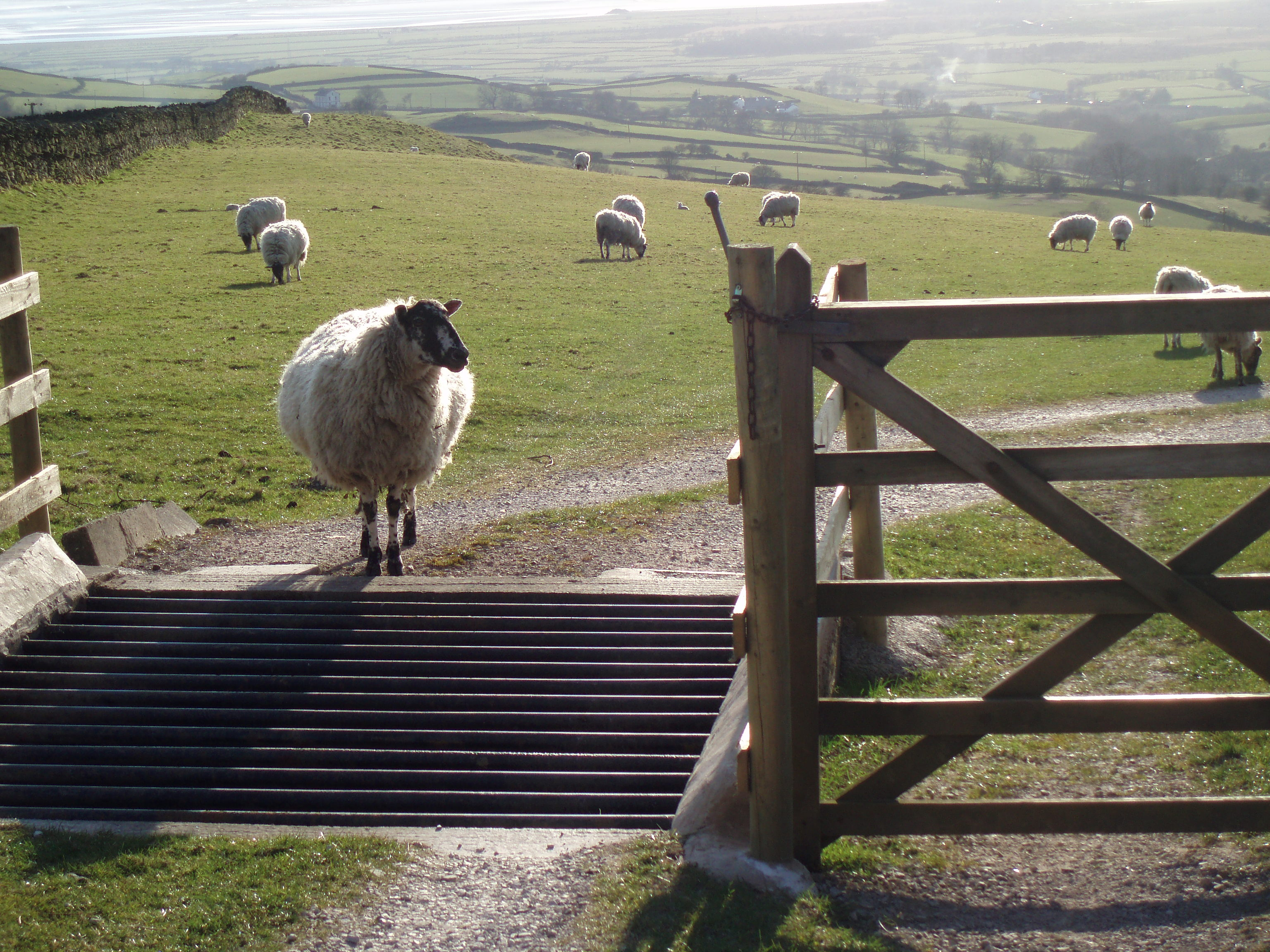 Sheep in front of a cattle grid – looking over the Duddon estuary, Cumbria, UK.